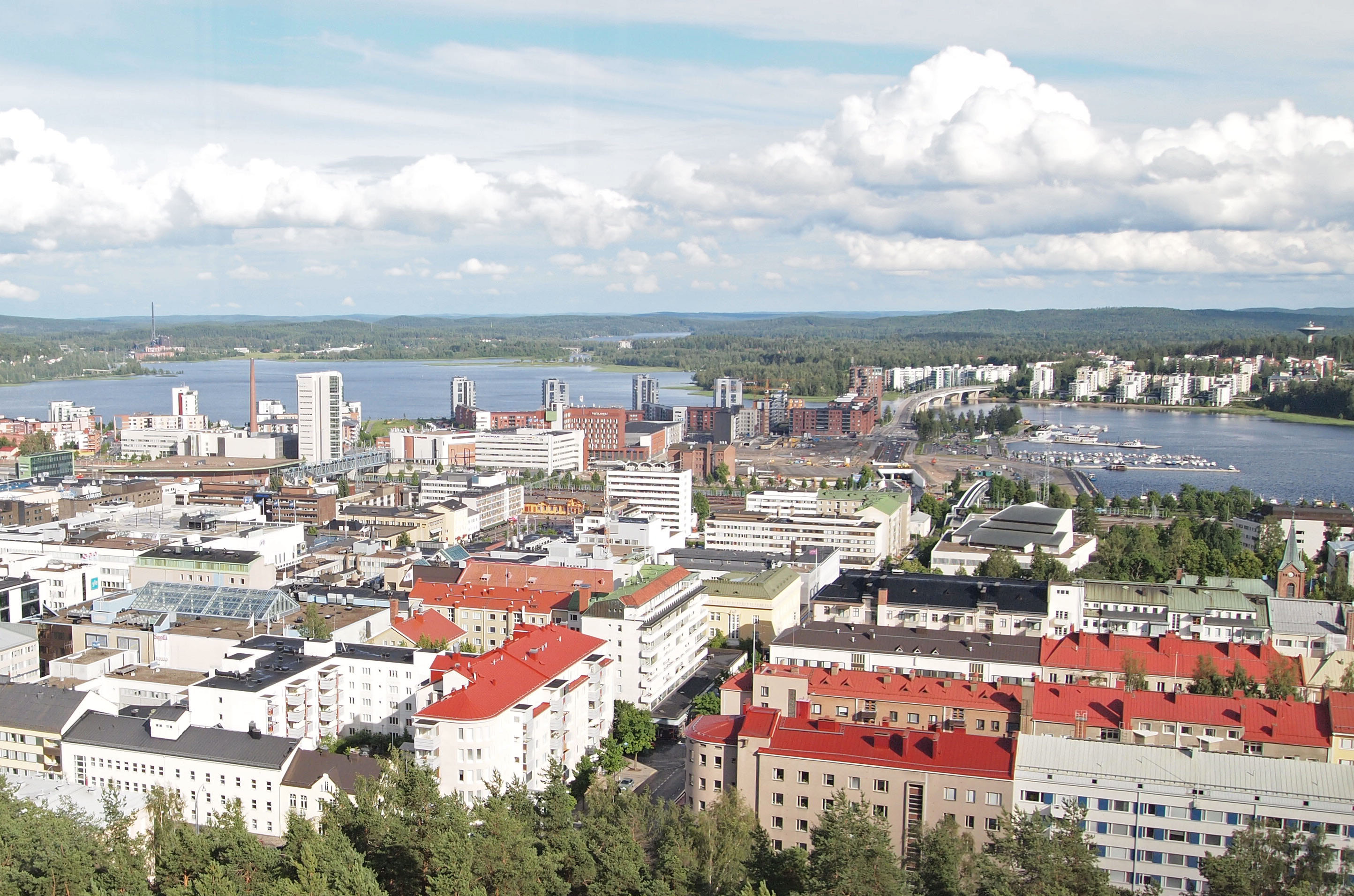 View from Vesilinna tower towards Jyväskylä centre and Jyväsjärvi.